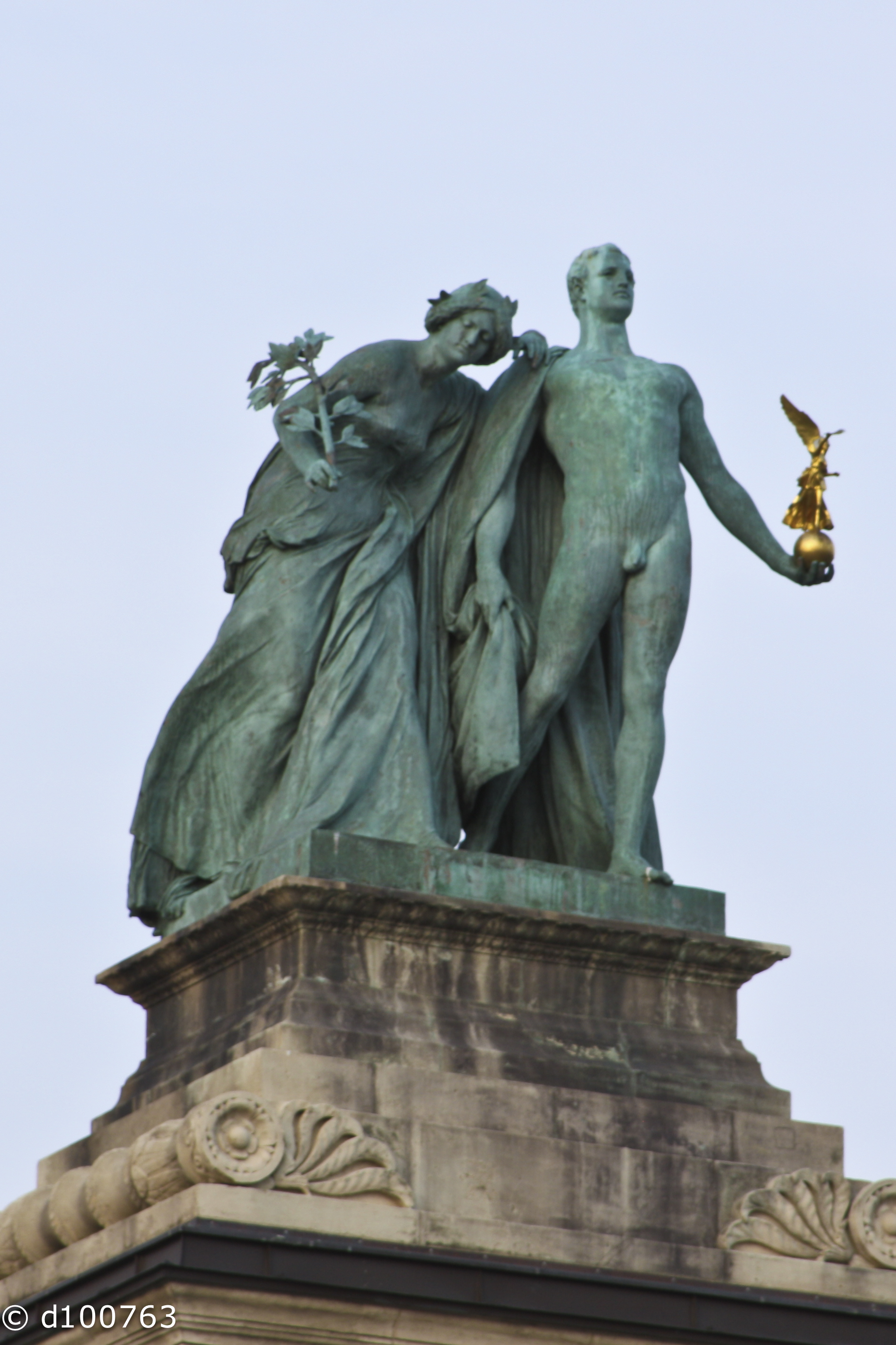 Allegorical figures of Knowledge and Glory at the Millennium Monument located in Budapest, Hungary